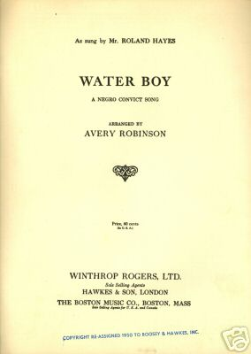 "As sung by Mr. Roland Hayes Water Boy A negro convict song Arranged by Avery Robinson" Piano - Vocal sheet music © en:1922, en:1950. Boosey & Hawkes, Inc From - eBay item NEGRO CONVICT SONG "Water Boy" Sheet Music A. Robinson (item #330074062101) sold by Mulyaki.